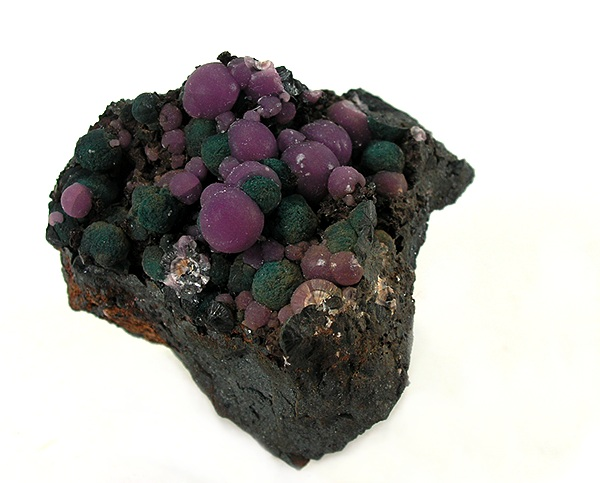 Rockbridgeite, Strengite Locality: Leveäniemi Mine, Svappavaara, Kiruna district, Lappland, Sweden (Locality at ) Size: miniature, 3.5 x 2.8 x 2.6 cm Strengite and Rockbridgeite A gorgeous miniature with high quality and good relief both - a rare combination. The strengite (purple) is of extremely high quality and size for the material (to 6 mm). The rockbridgeite though, is probably even better all things considered as this species is usually just the associated mineral and not so dominant in its own crystallization that it stands out so nicely as here.